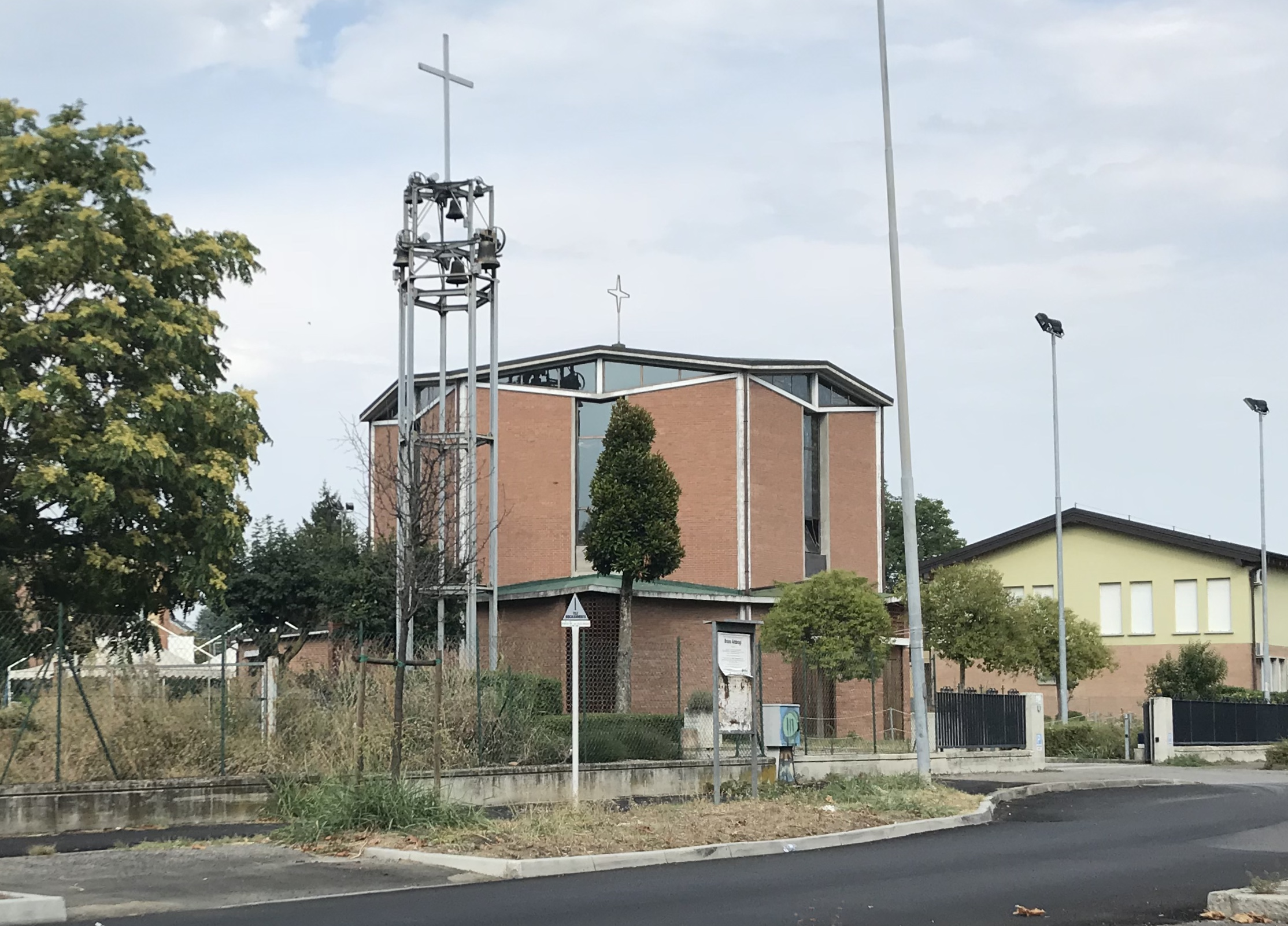 Parish of Saint Pius X, Reggio Emilia, Italy